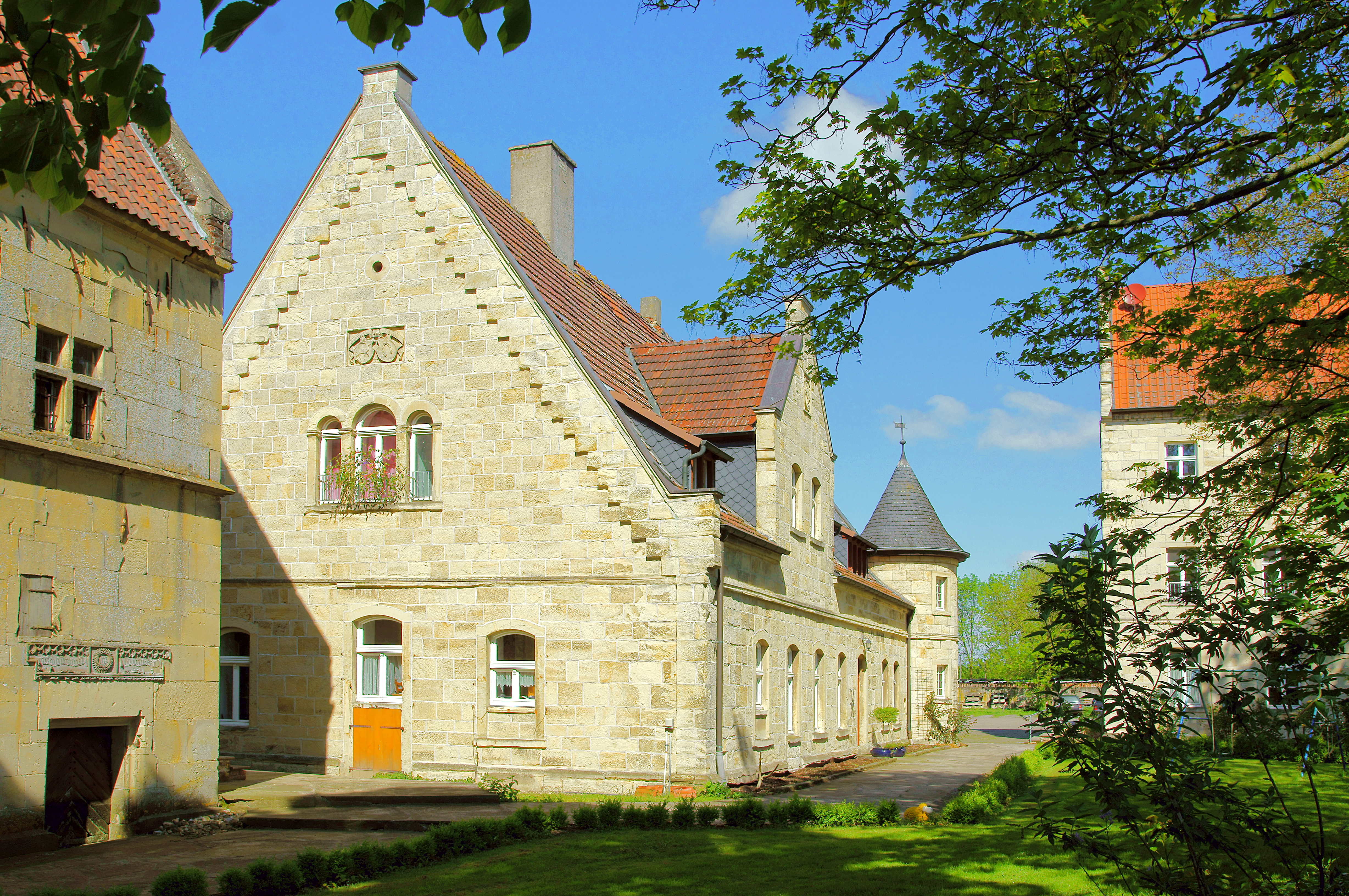 Historic Farmhouse in Nottuln, district of Coesfeld, North Rhine-Westphalia, Germany. This is a photograph of an architectural monument.